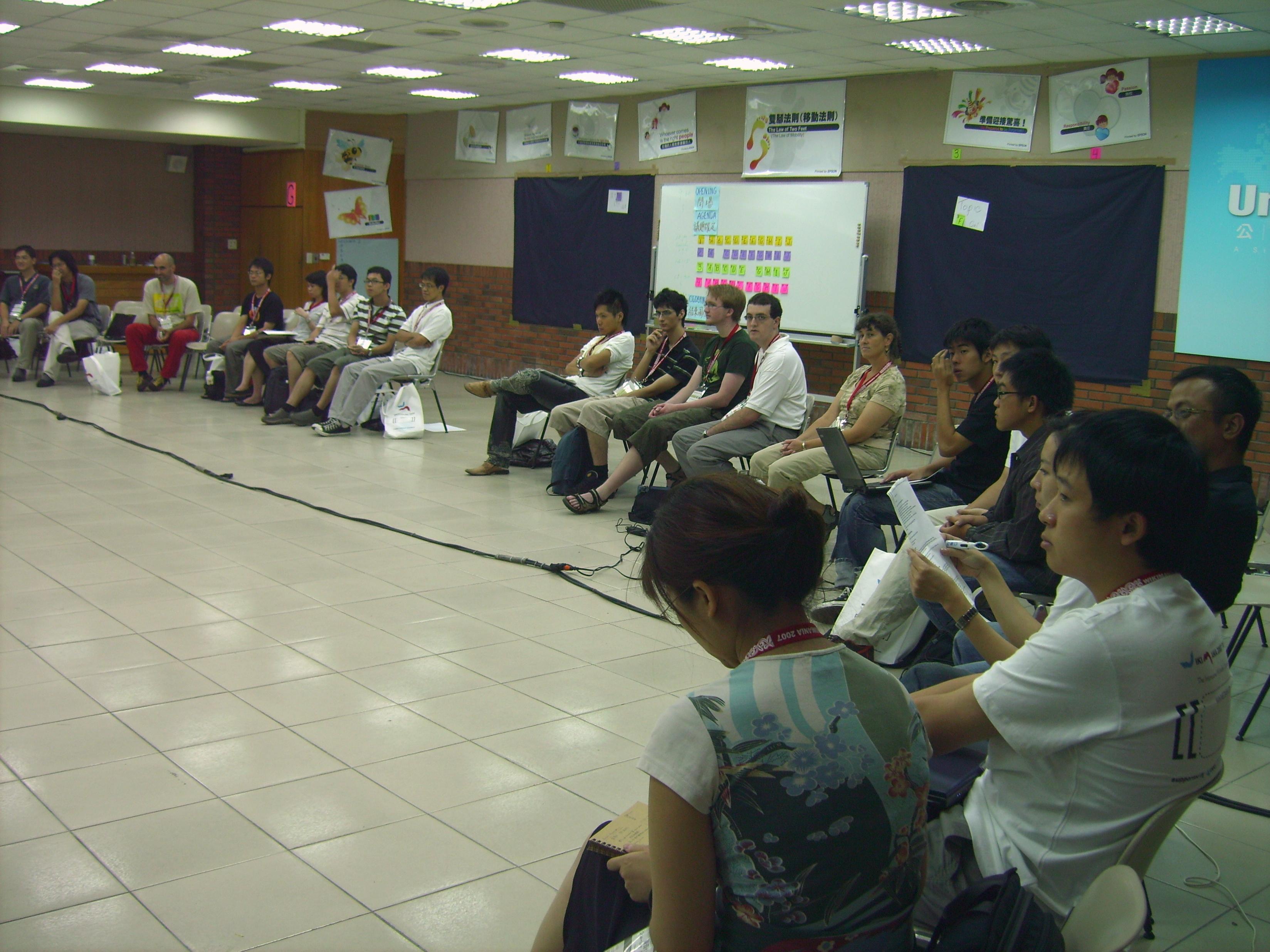 The opening of Citizen Journalism Unconference. (4)